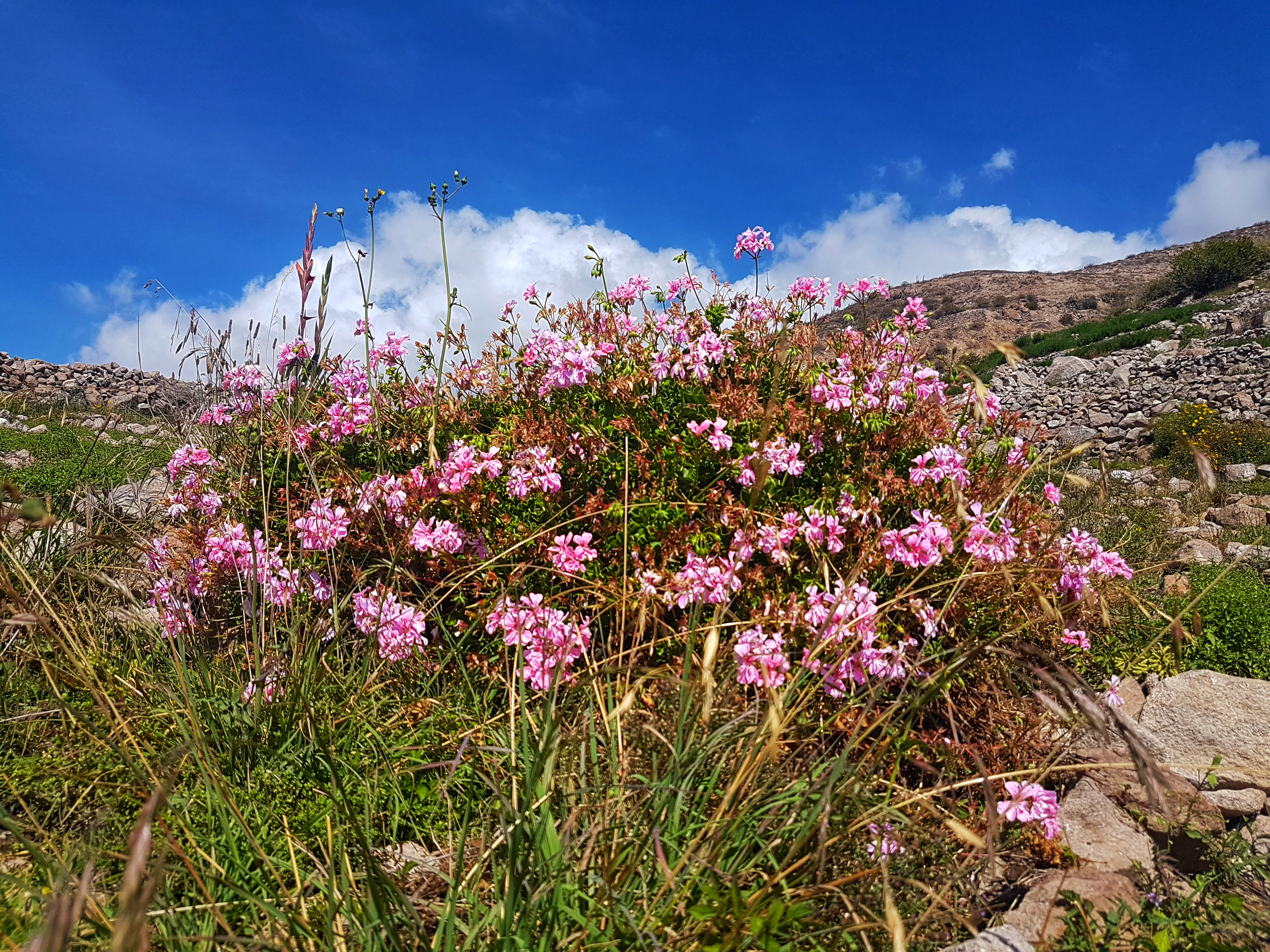 Wild flora in the high Andean area of Candarave outsides